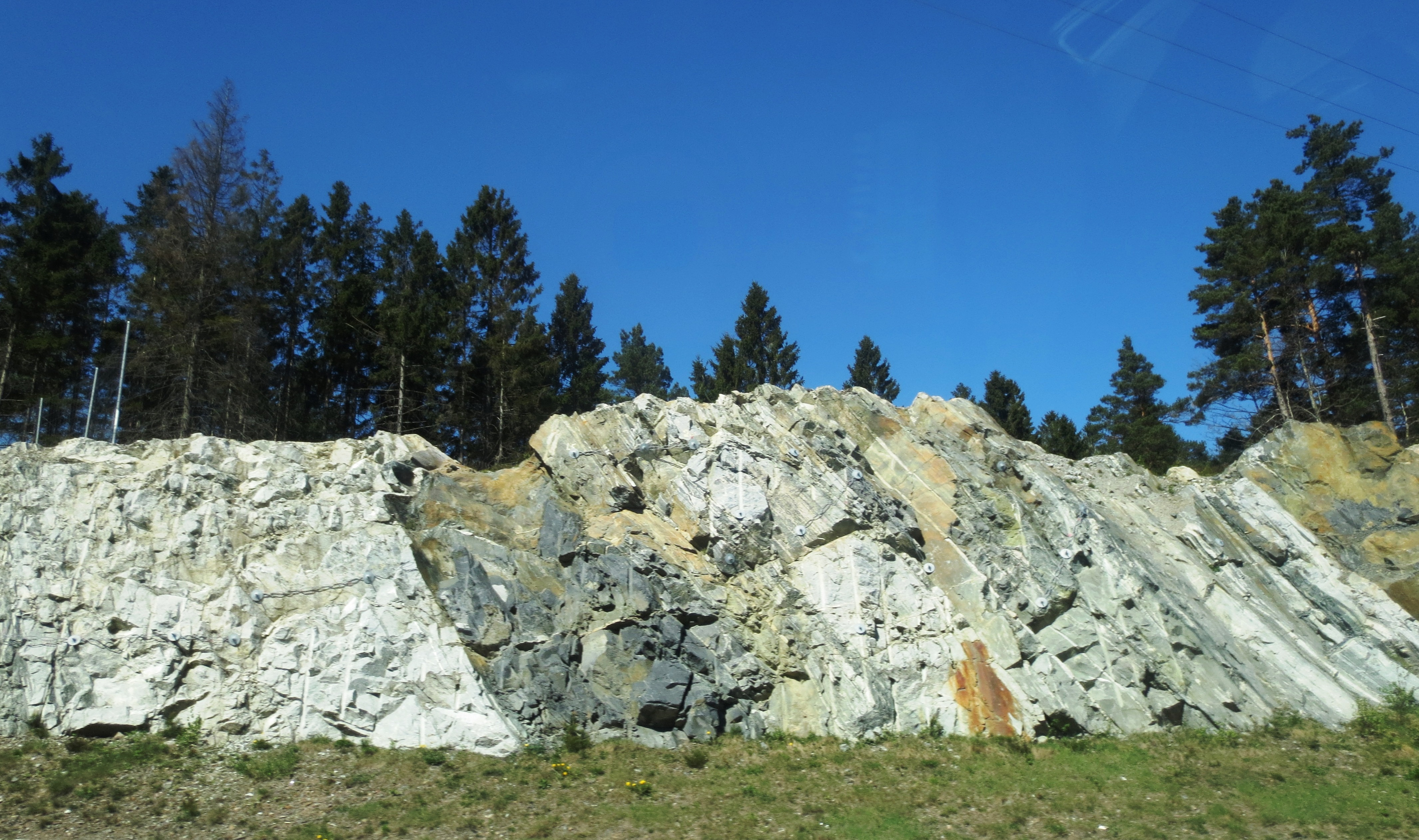 Geology of western part of Grimstad municipality, Norway. The profiles consist of tonalite7trondhjemite, and gneiss.